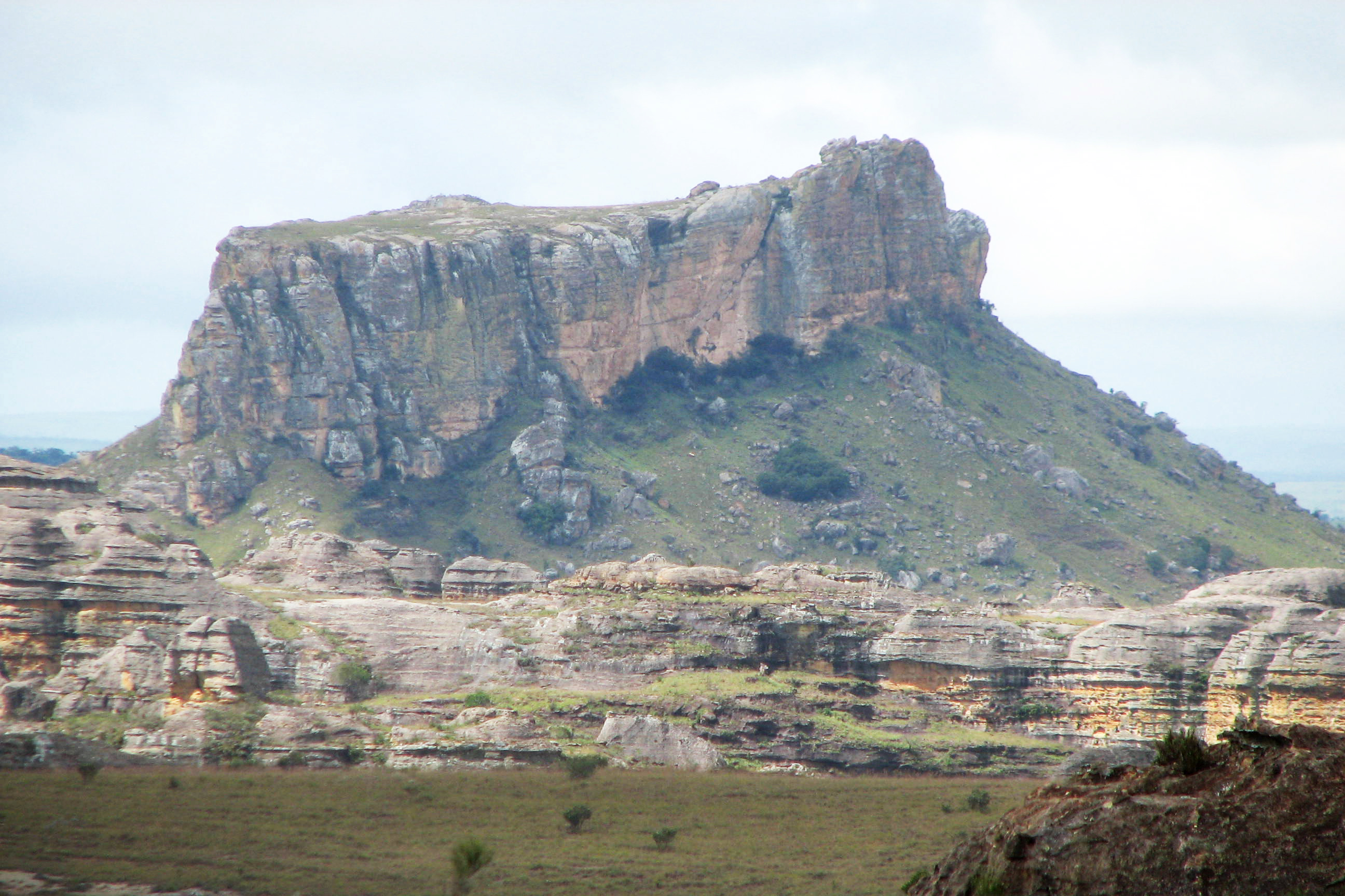 Isalo National Park, Madagascar